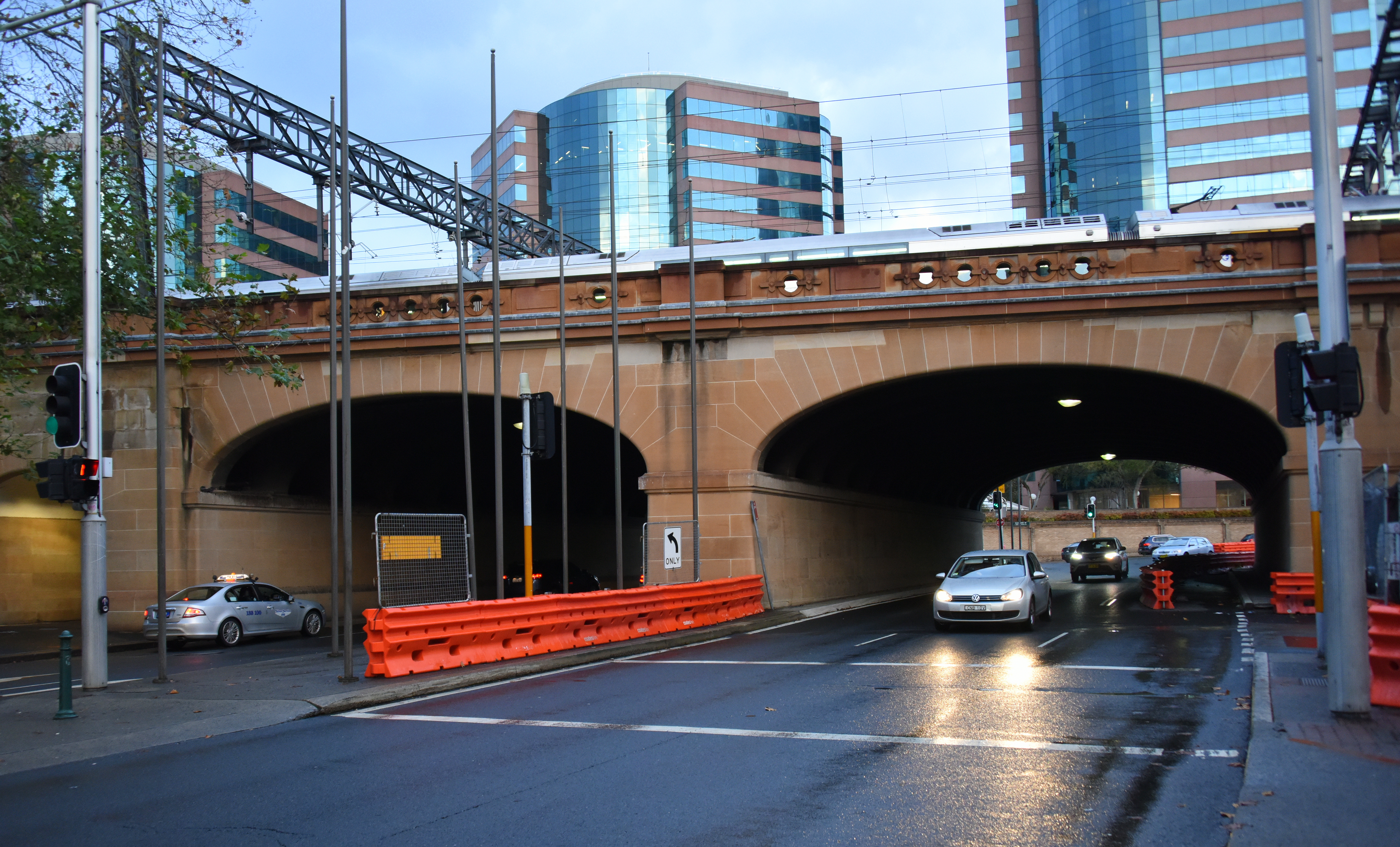 Eddy Avenue, Sydney